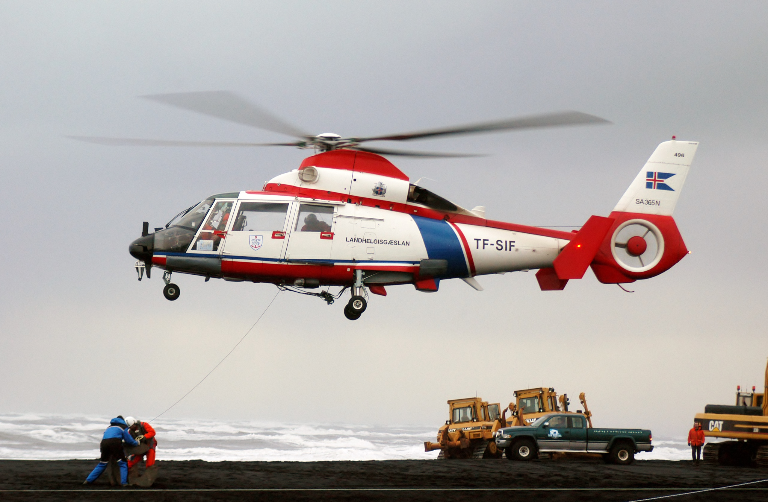 An Iceland Coast Guard (Islenska Landhelgisgaeslan) Eurocopter / Aerospatiale AS-365N Dauphin 2 (TF-SIF) Search and Rescue (SAR) Helicopter hovers over the beach as it prepares to deliver equipment to the Icelandic fishing trawler, the BALDVIN THORSTEINSSON, that ran aground on a sandbar off Icelands southern coast while transporting a very valuable catch of 1,500-tons of Capelin fish.